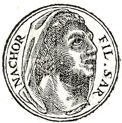 Nahor is the name of two persons in Torah who were both descended from Arpachshad.The son of Serug and father of Terah, who was the father of Abraham.